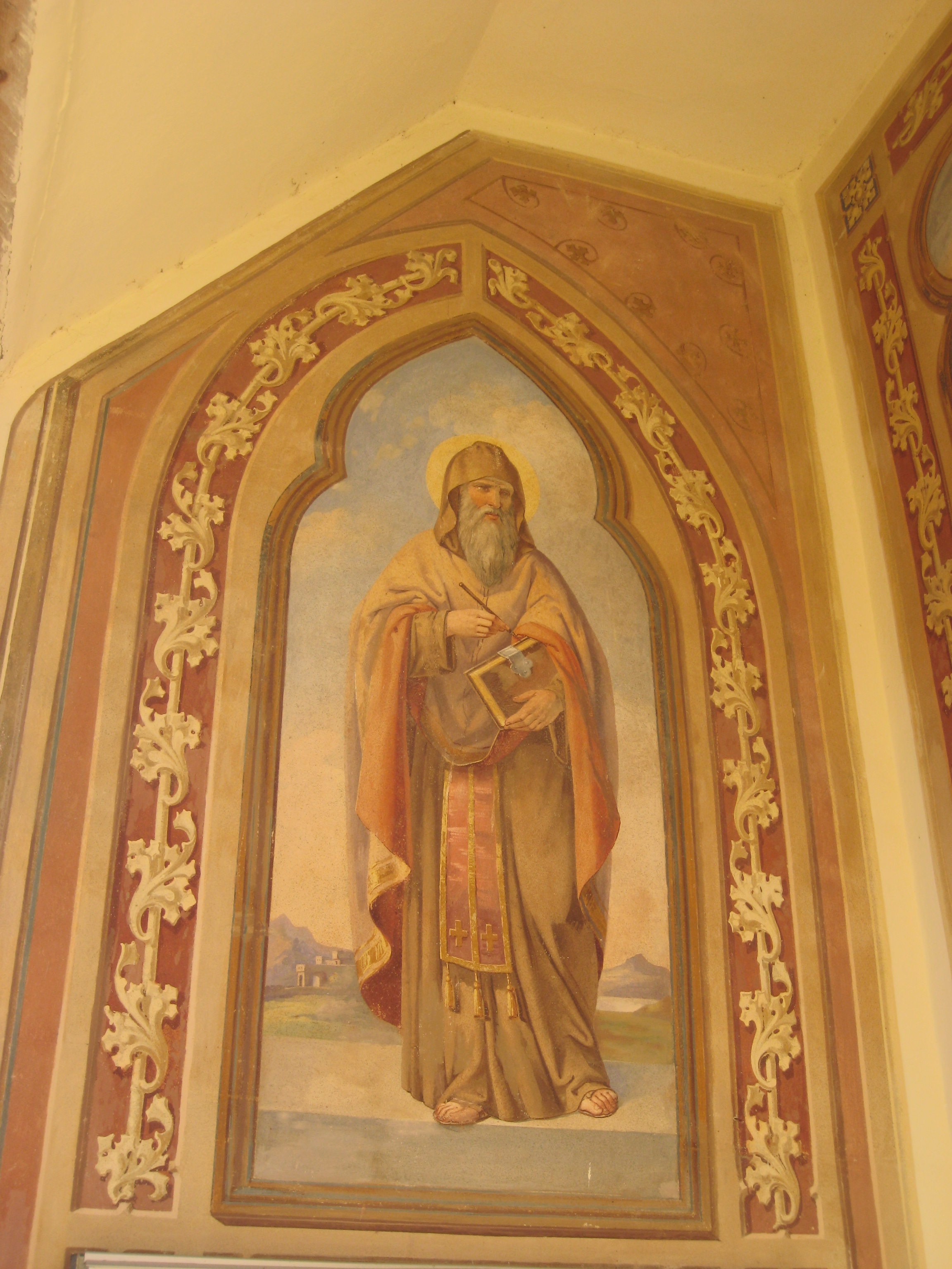 Jacobo Brollo, Saint Cyril in Saint Martin / Šentmartin near Frajnberku / Freudenberg North-East of Klagenfurt/Celovec, (1889)